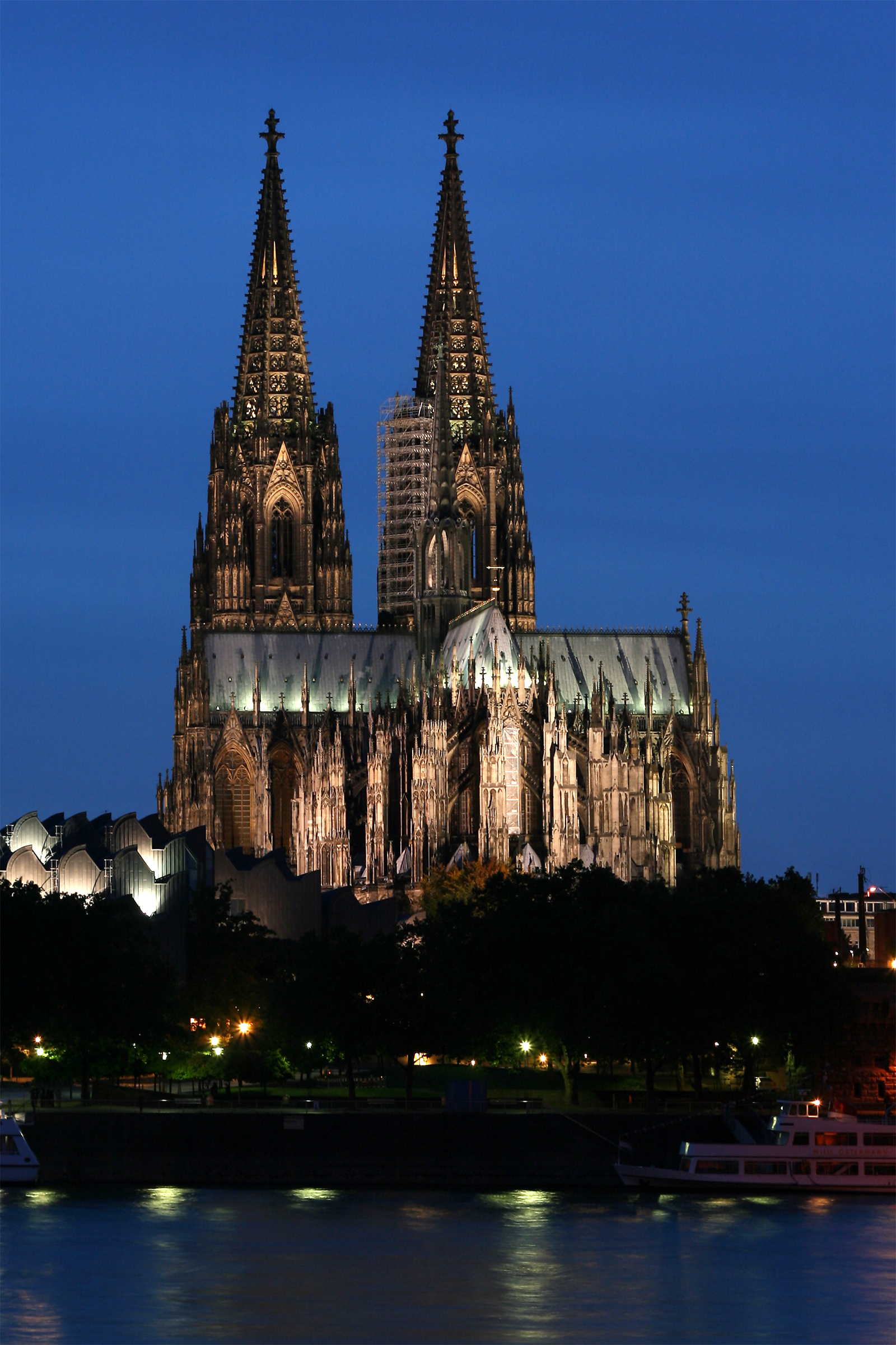 Cathedral of Cologne in the evening